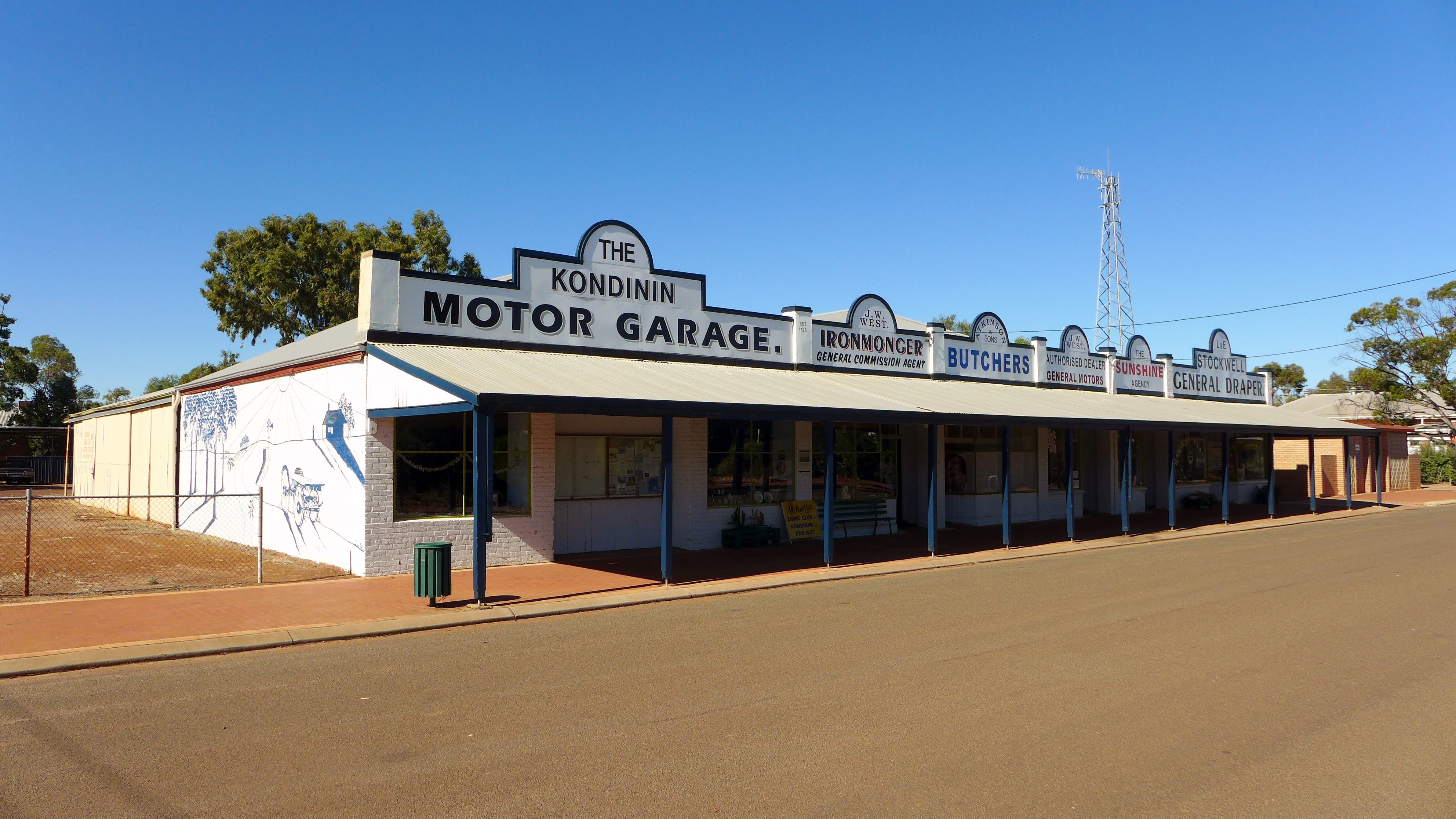 View of Gordon Street, Kondinin, Western Australia.